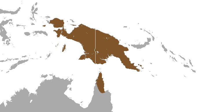 Long-nosed Spiny Bandicoot (Echymipera rufescens) range